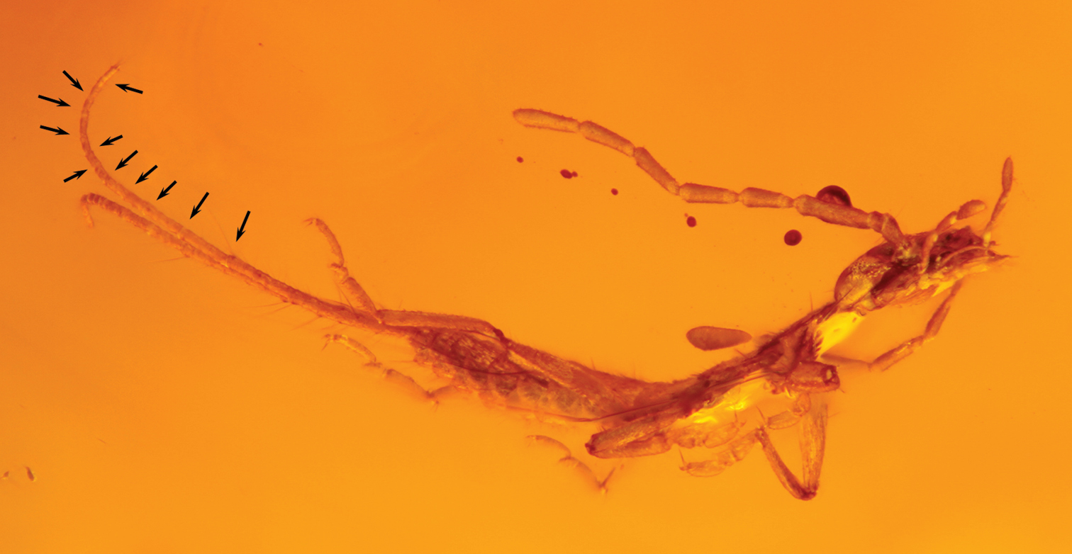 Photomicrograph of holotype nymph of Tytthodiplatys mecynocercus gen. et sp. n. (AMNH Bu-FB75) (arrows indicate most easily discernible cercomere joints).